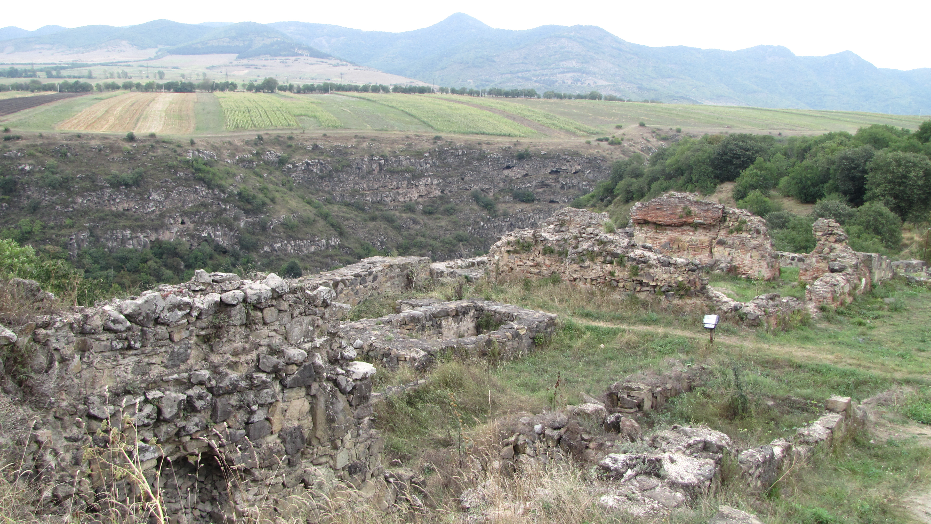 Dmanisi castle